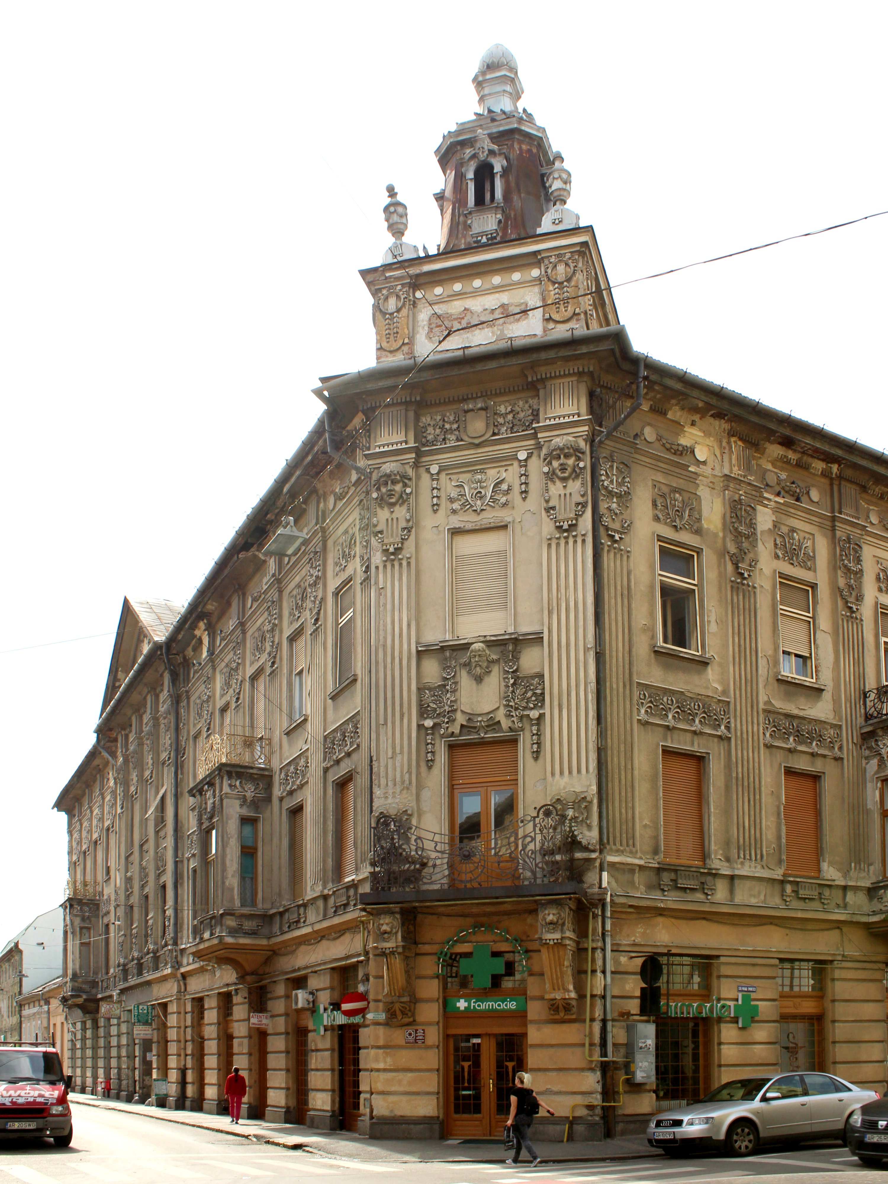 Kelemen Földes Palace, Arad, Romania.